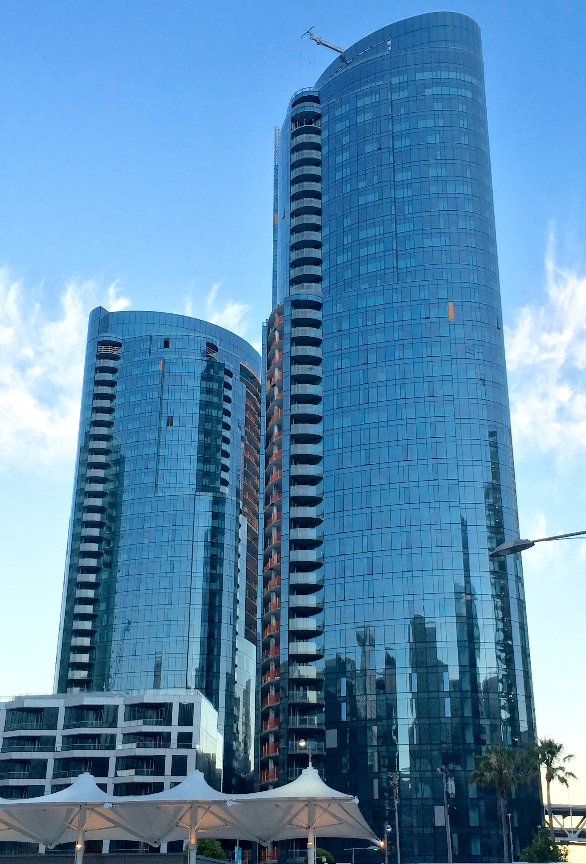 LUMINA, San Francisco, North View